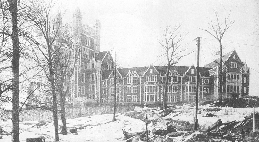 City College of New York. Photo from the side of the main building.